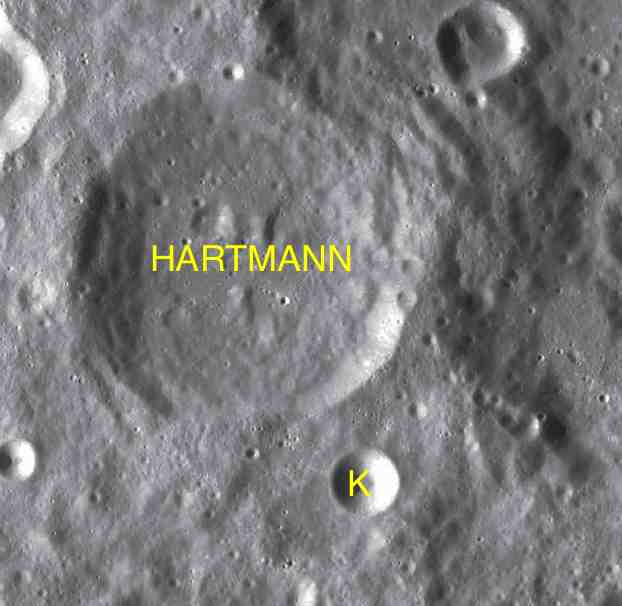 Part of the chart LAC-66 used for the presentation